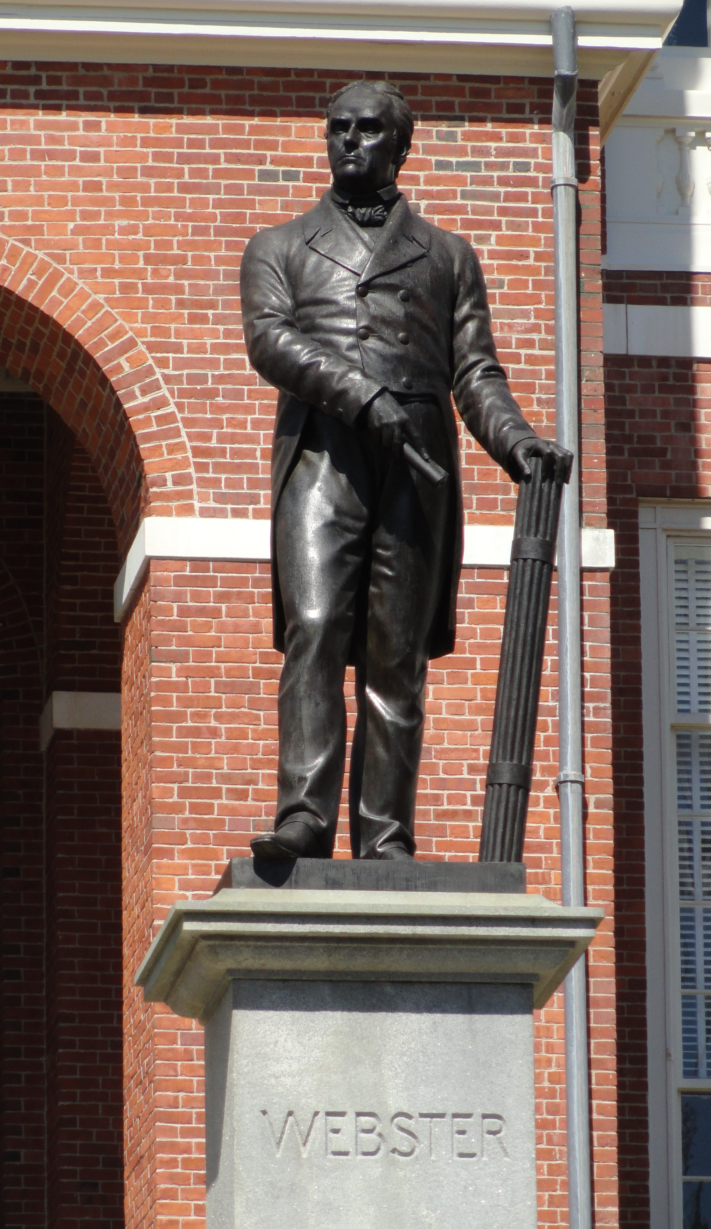 Statue of Daniel Webster by Hiram Powers, on the grounds of the Massachusetts State House, Boston, Massachusetts, USA.